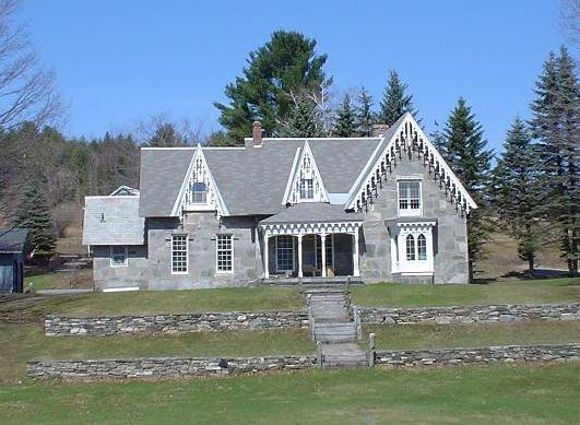 Cavendish, VT architecture